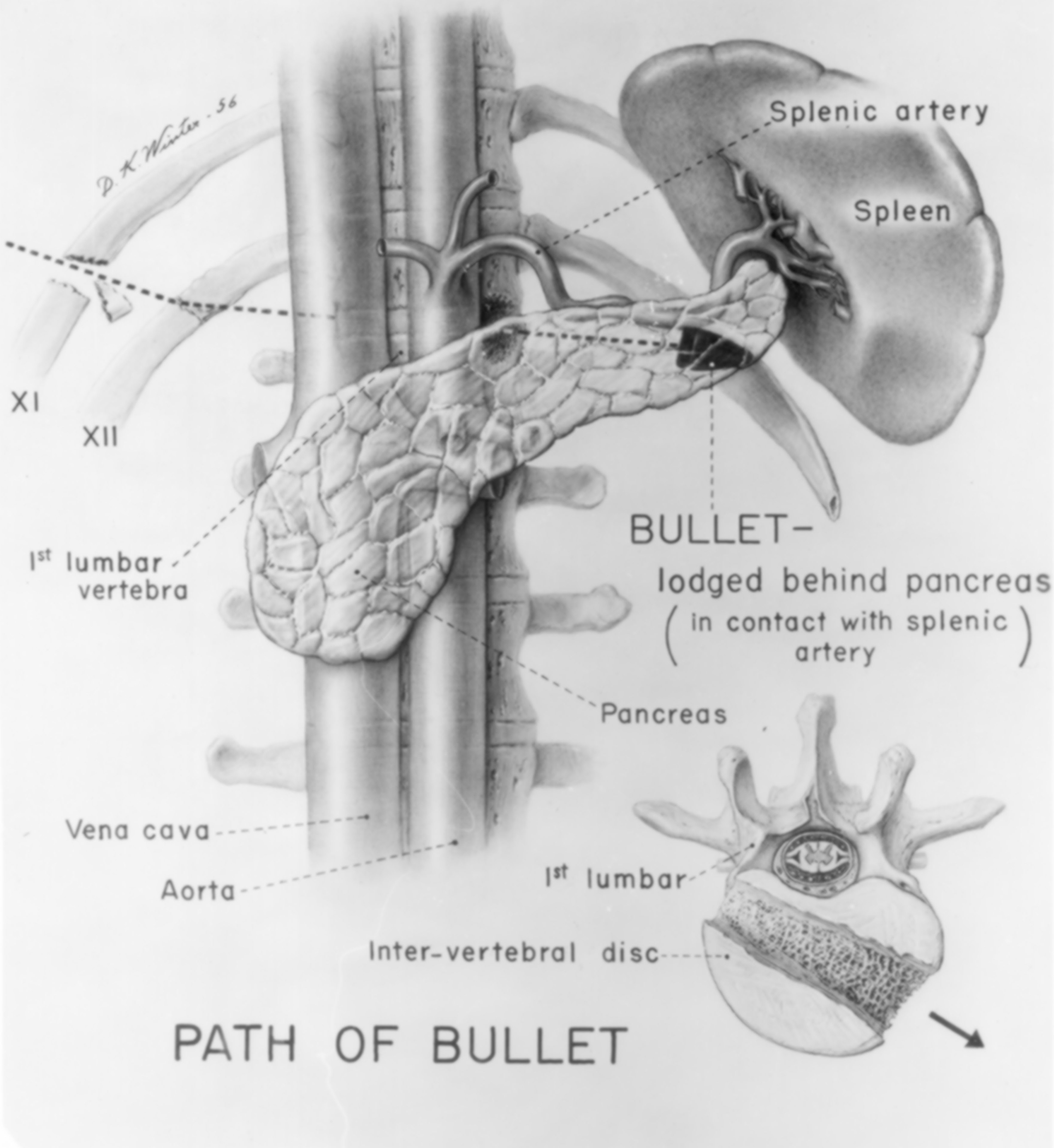 Ncp 001860 path of bullet (That wounded president garfield). Winter, d.K. (Artist)